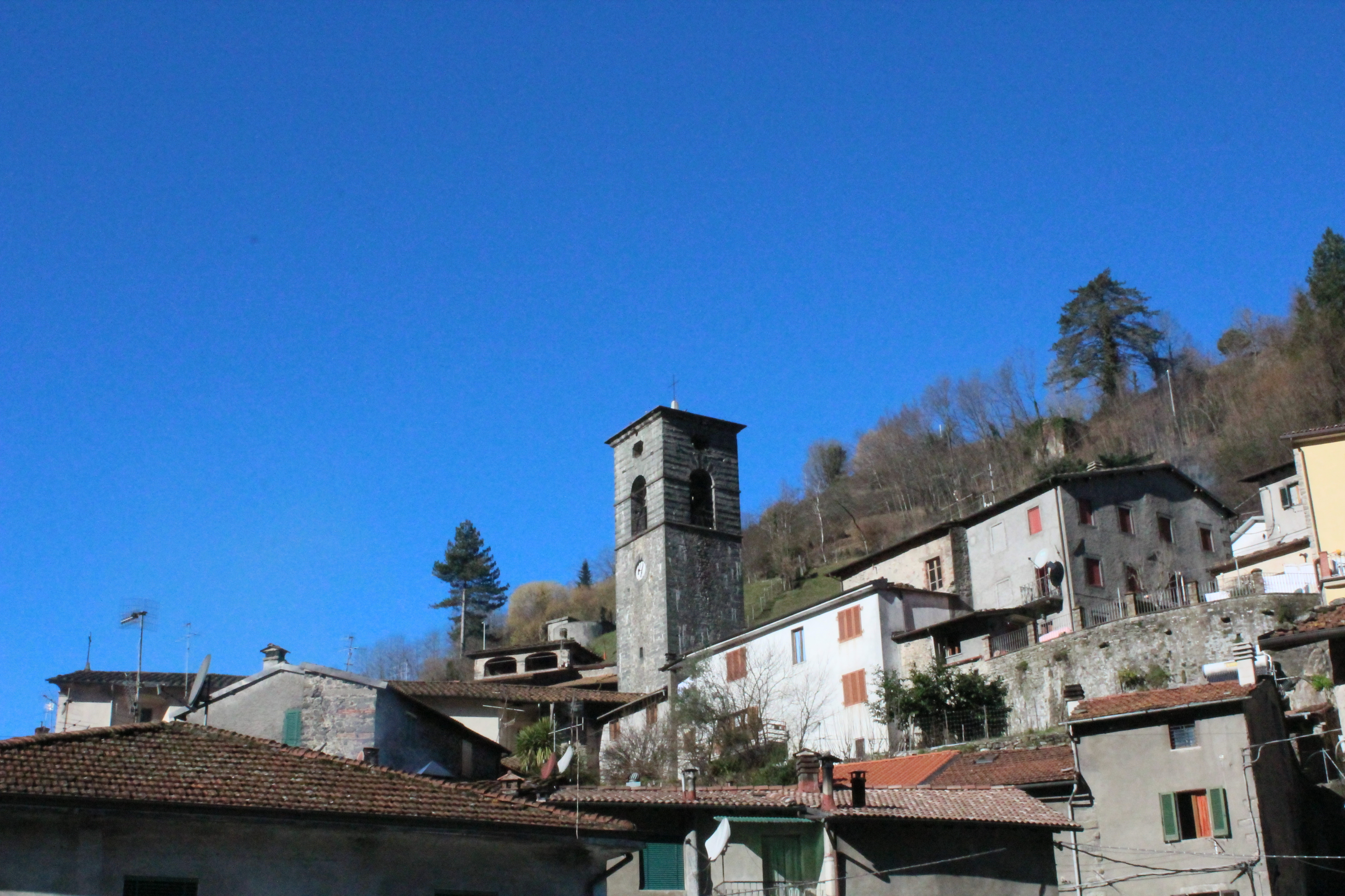 Panorama of Fabbriche di Vallico with the Campanile of the Church of San Giacomo, Fabbriche di Vallico, hamlet of Fabbriche di Vergemoli, Province of Lucca, Tuscany, Italy